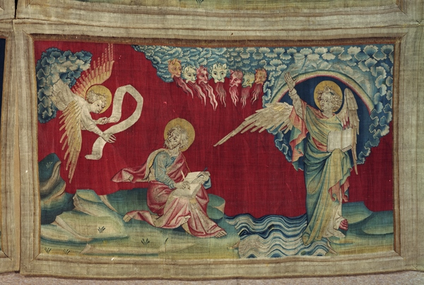 Château d'Angers; Angers; Pays de la Loire, Maine-et-Loire; France; Tenture de l'Apocalypse; no 27, L'ange au livre; Cultural heritage; Cultural heritage|Tapestry; Europeana; Europe|France|Angers; Hennequin de Bruges (Jan Bondol en flamand); connu également sous les noms de Jean de Bruges ou de Jean de Bondol ou encore Jean de Bandol; ; Ref.: PMa_ANG022_F_Angers